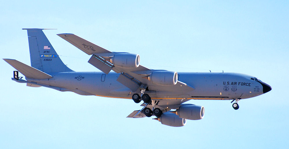 465th Air Refueling Squadron Boeing KC-135A-BN Stratotanker 62-3503 (Upgraded to KC-135R)